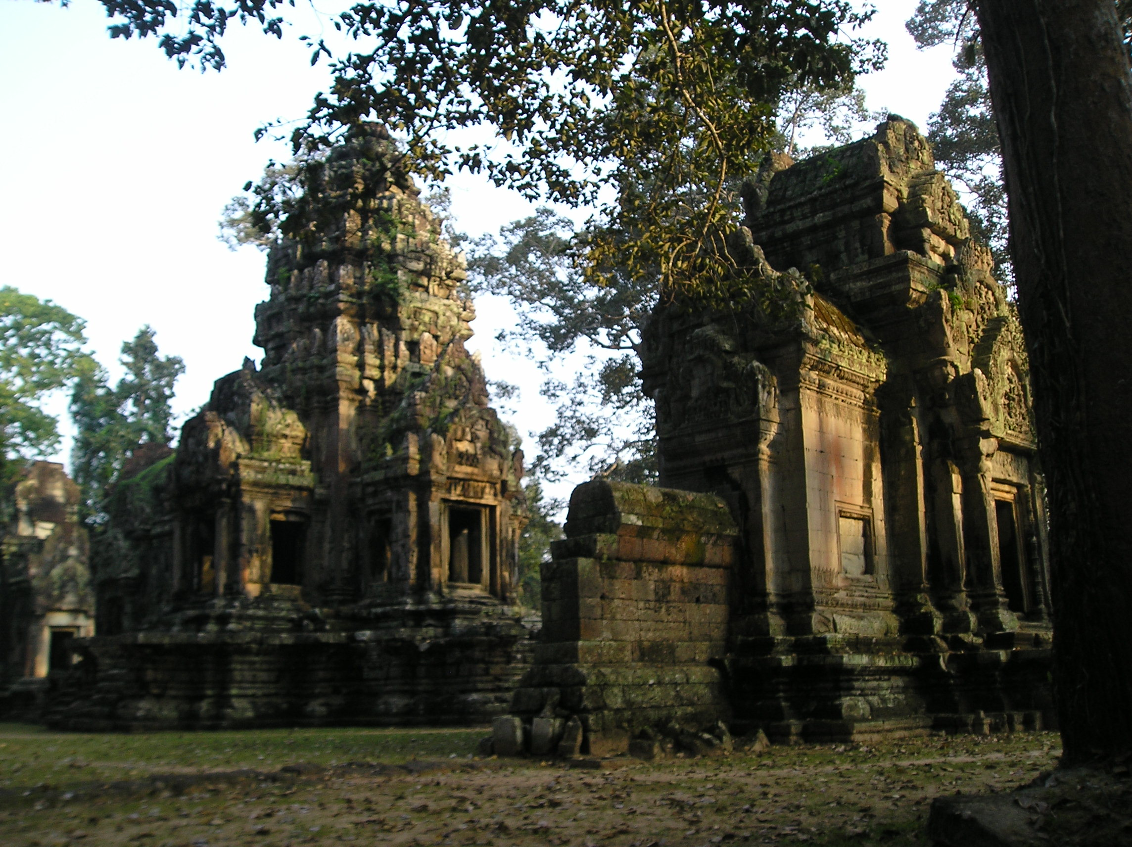 Thommanon — Khmer Empire temple in Cambodia. Photo by Writer128